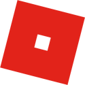 Cropped bitmap derived from ROBLOX's Vector Logo from the official PDF specification